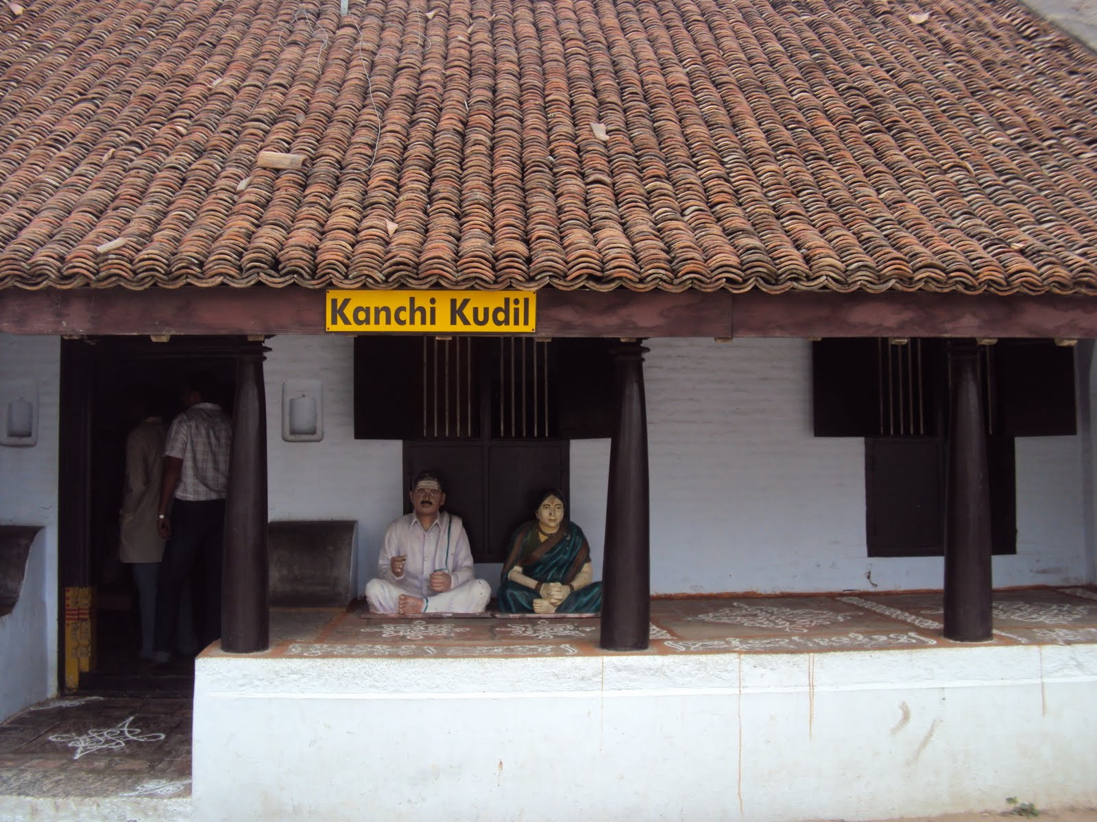 Kanchi Kudil - A home that demonstrates the old living style of people in kanchipuram